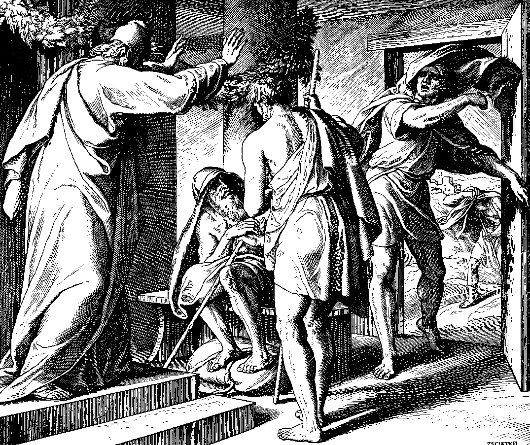 Woodcut for "Die Bibel in Bildern", 1860.